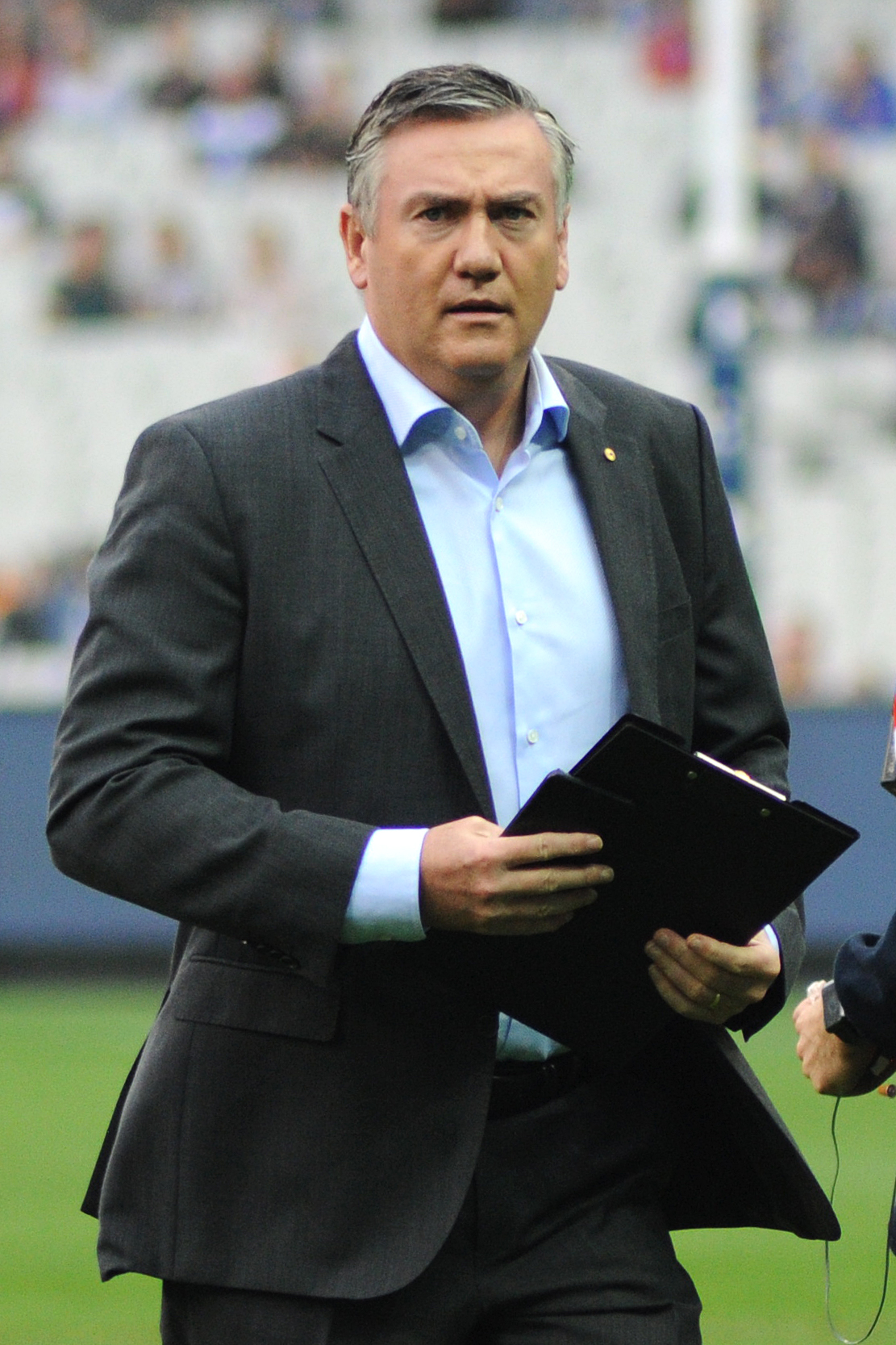 Eddie McGuire during the AFL round five match between Carlton and West Coast on 21 April 2018 at the Melbourne Cricket Ground in Melbourne, Victoria.